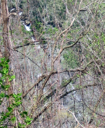 An early spring view of Corbin Creek Falls taken by uploader, August 2006